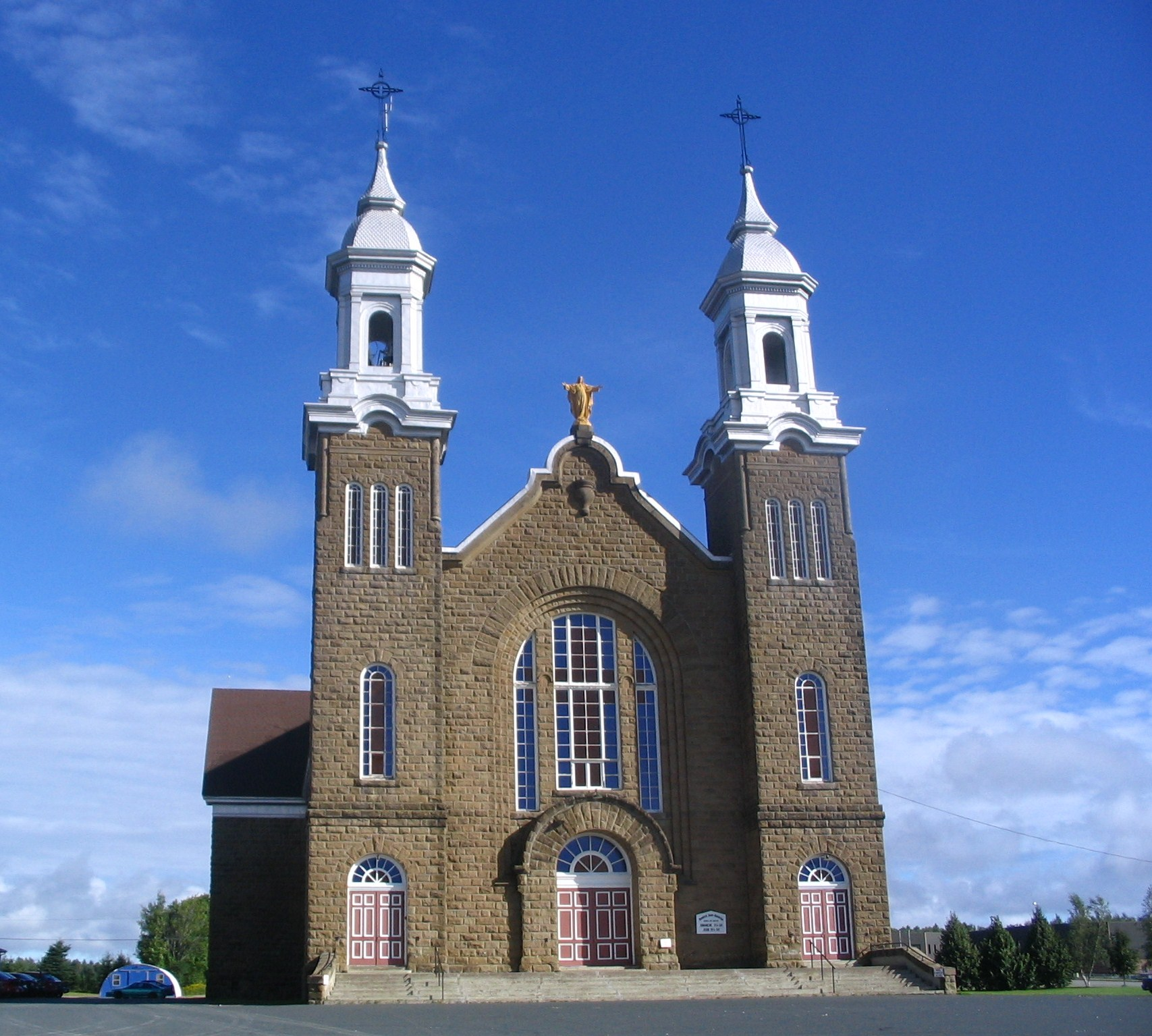 The catholic church of Paquetville, New brunswick, Canada.